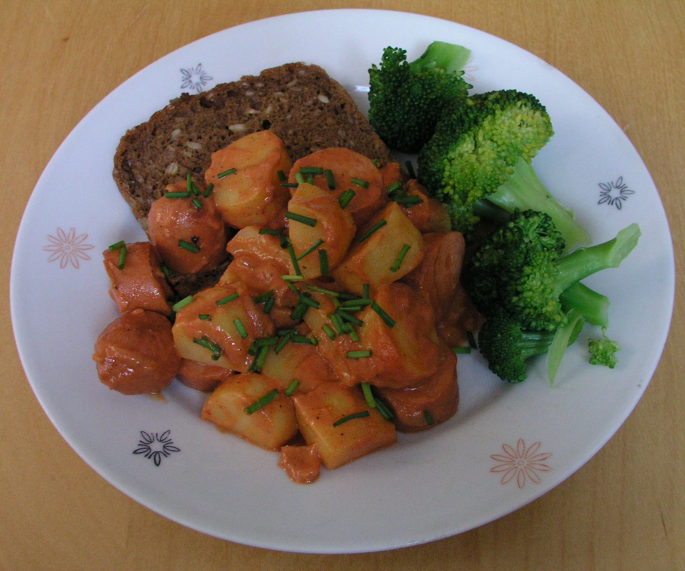 The danish dish svensk pølseret (lit. Swedish sausage stew) served with rye bread and broccoli. The dish itself has potatoes, sausages, cream and milk, tomato puree, onion and paprika.